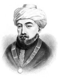 Moses Maimonides, portrait.